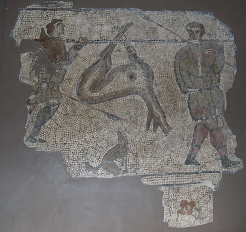 Mosaic found at East Coker (Somerset, England), now in County Museum Taunton